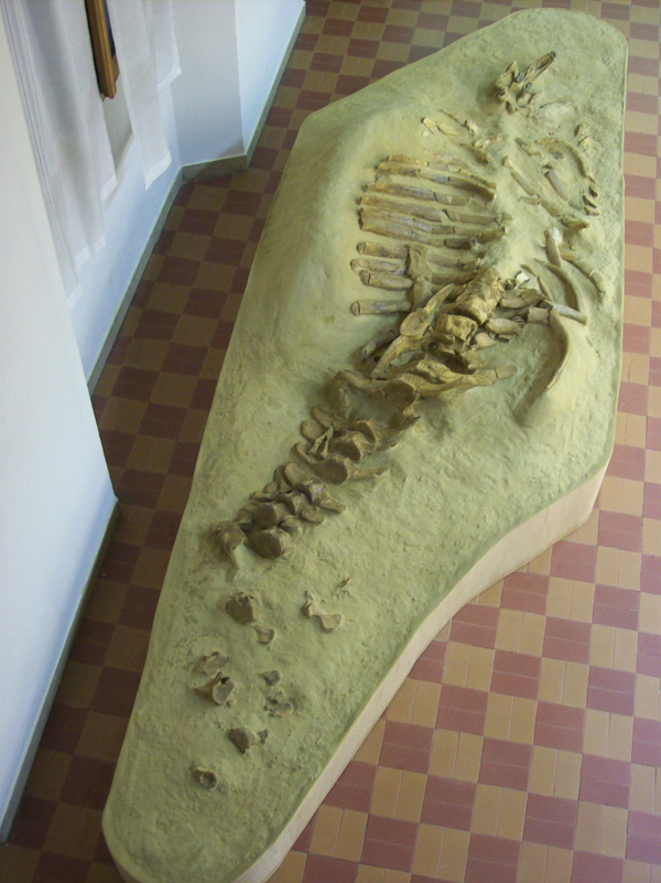 Metaxytherium subappenninum